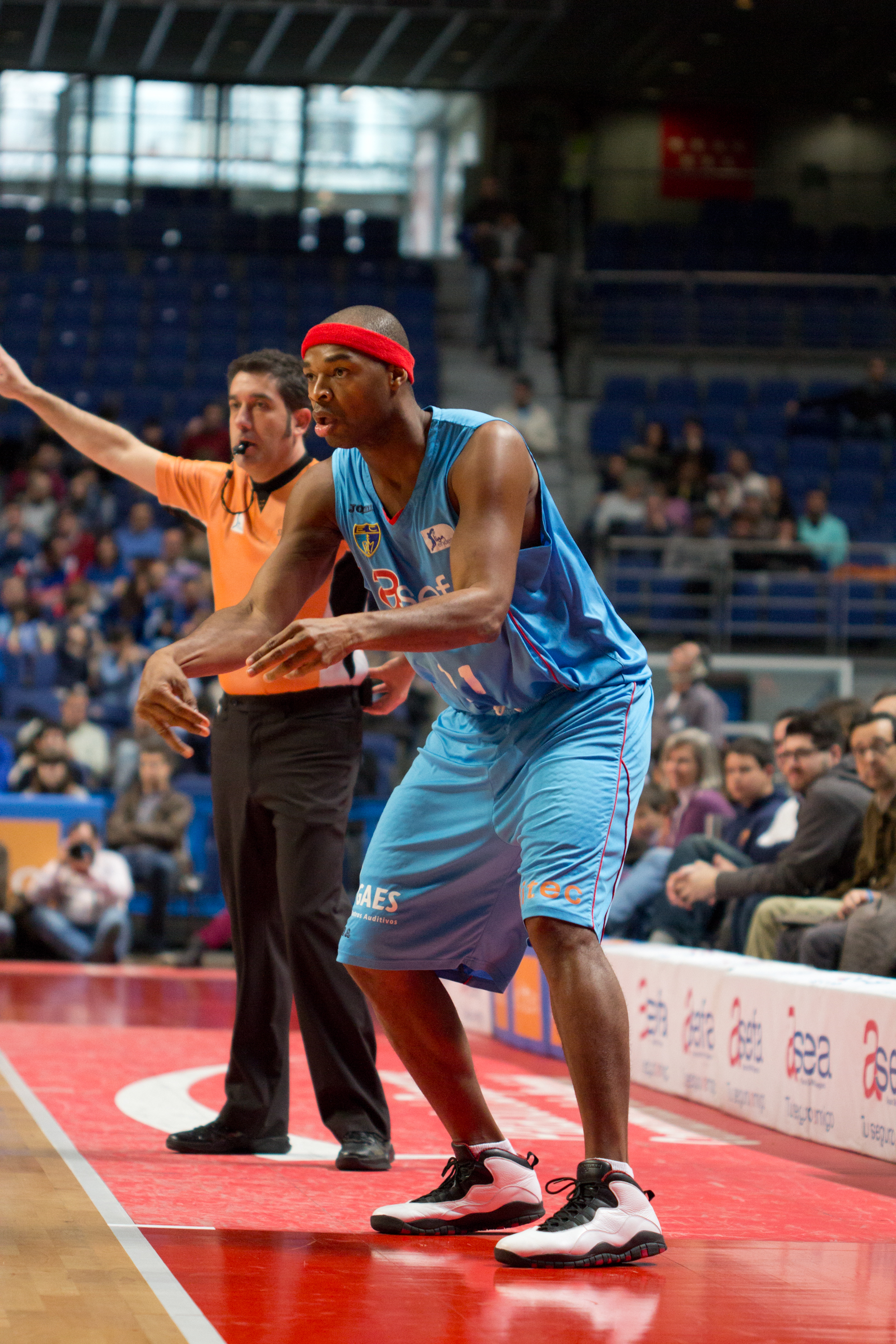 Tariq Kirksay. Game Estudiantes vs Unicaja Málaga.